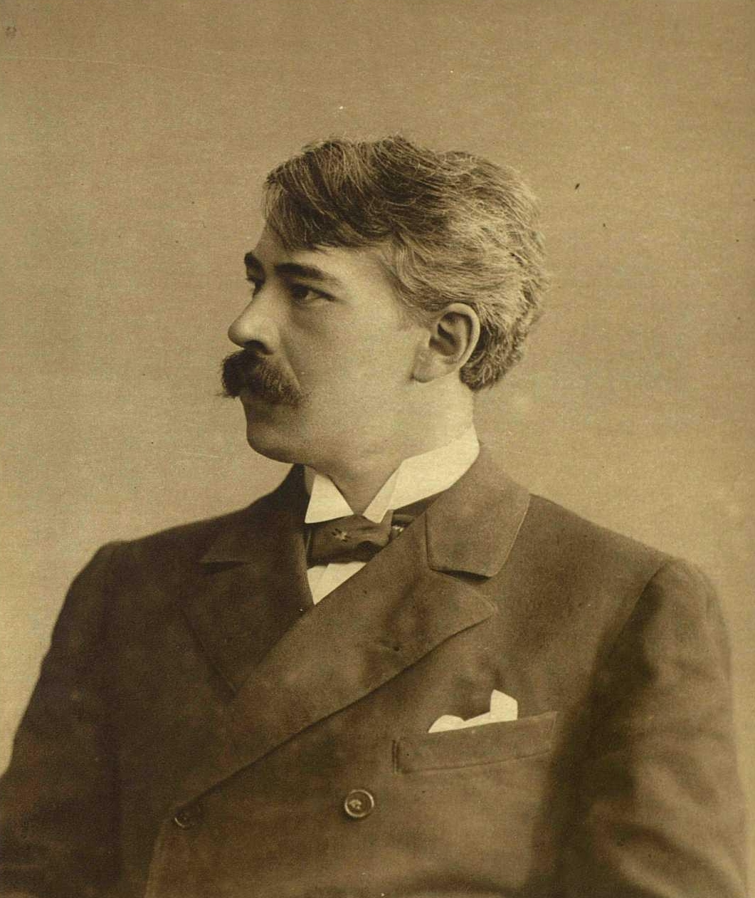 Constantin Stanislavski